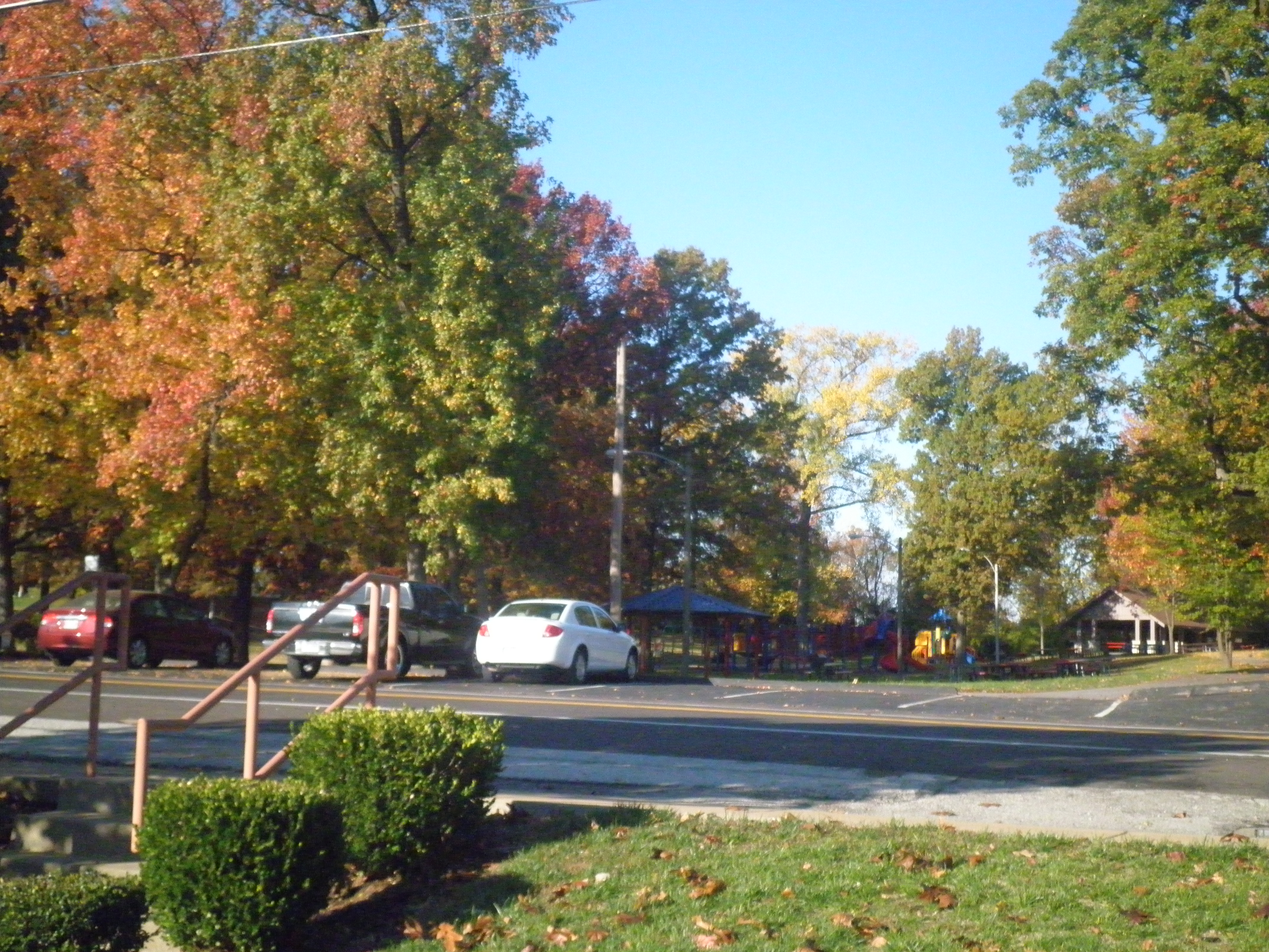 View of Baerveldt Park from Pagedale City Hall